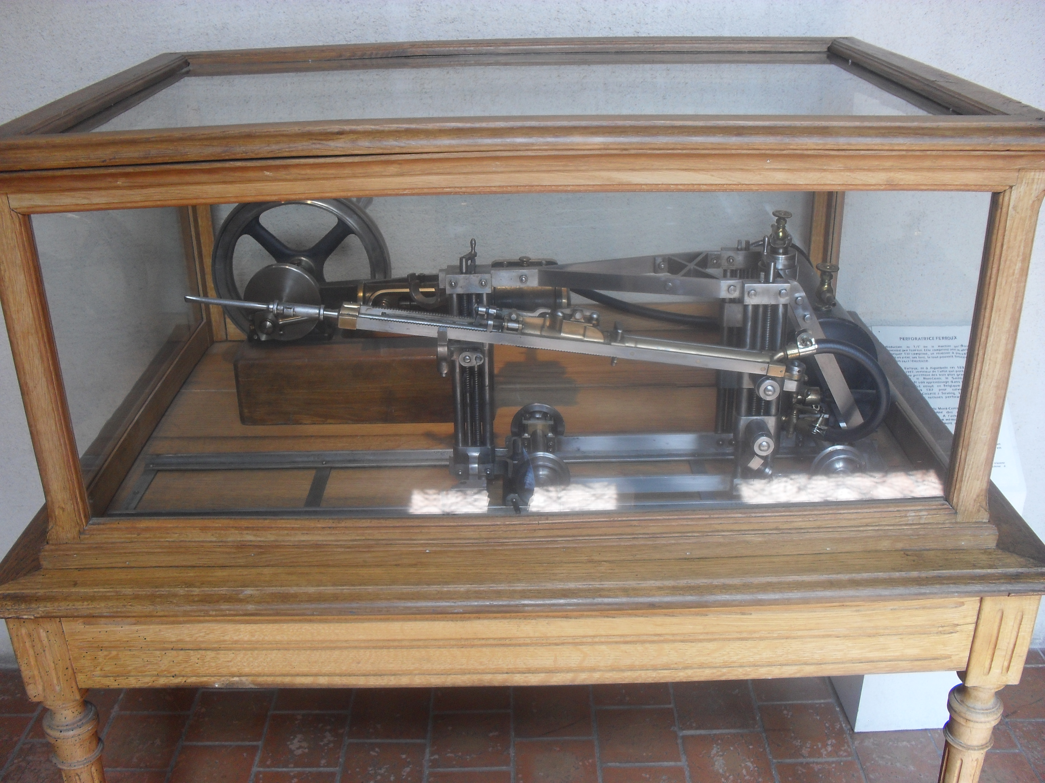 A model at the scale 1/5 of the drill invented by Camille Ferroux exhibited at the Musée Savoisien museum on May 30, 2014.